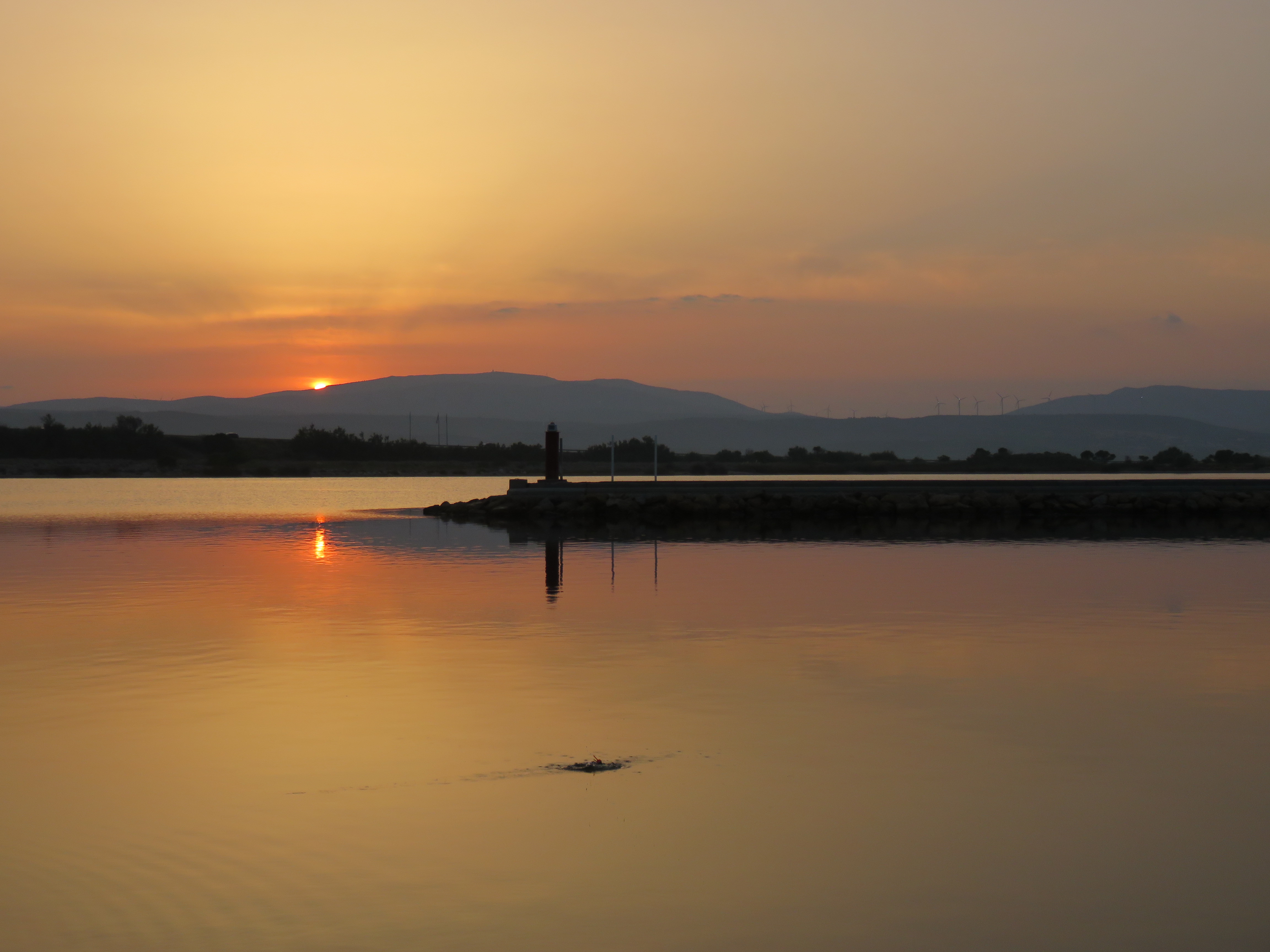 Port Leucate (Aude), harbour / sunset